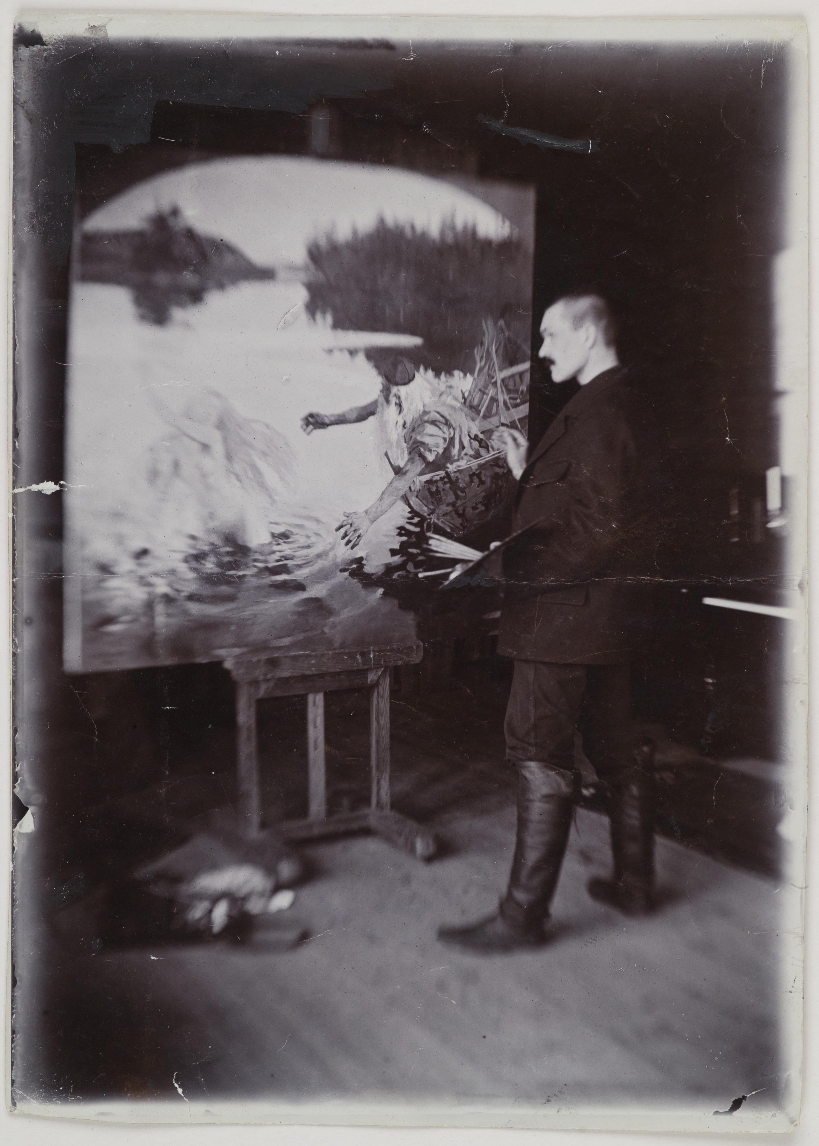 Axel Gallén painting the Aino Myth (1891) in his studio in Malmi, Helsinki, Finland, in 1890 or 1891.